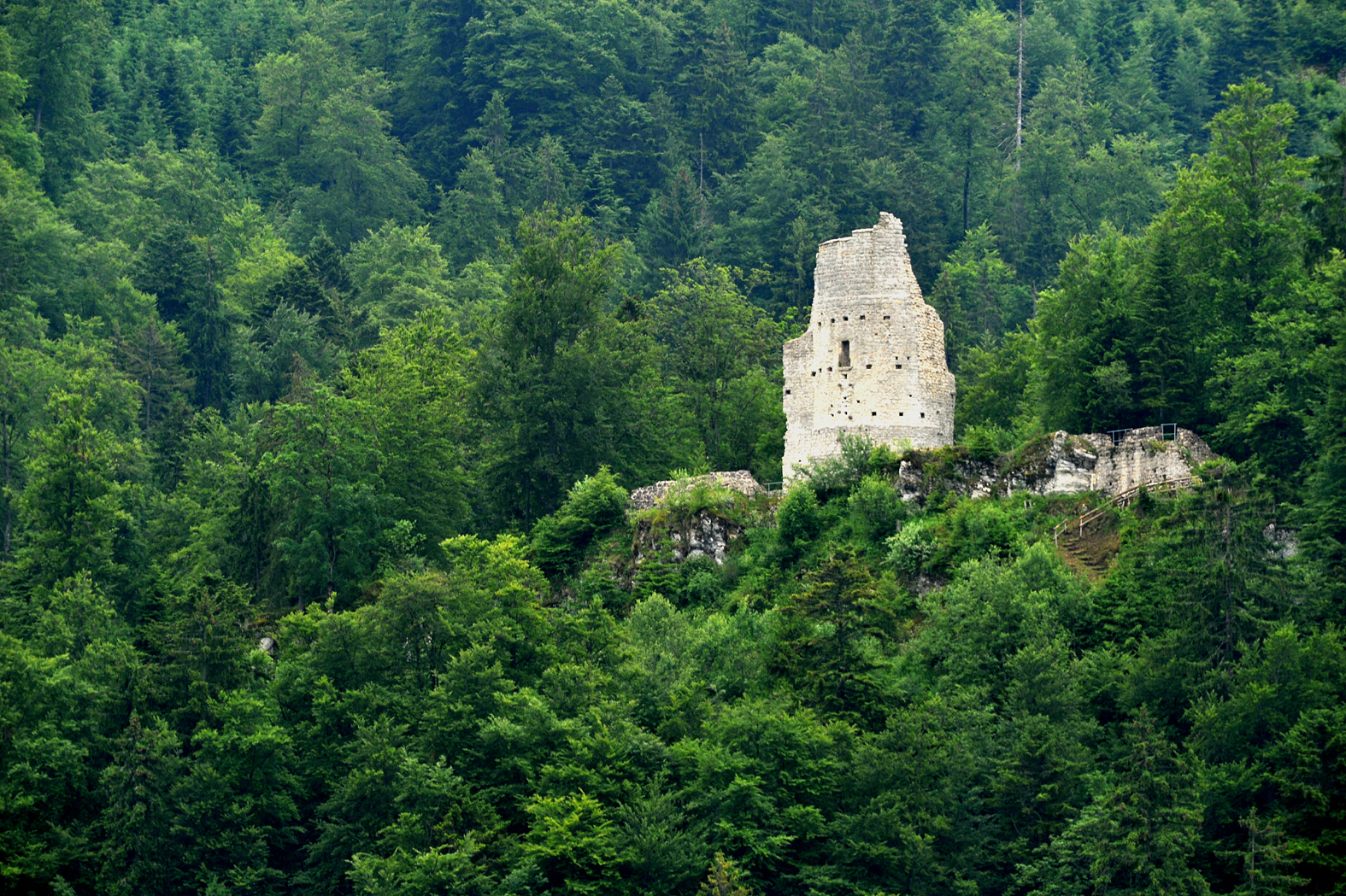 Vue to the ruins of the Château d'Erguël from Sonvilier; Berne, Switzerland.